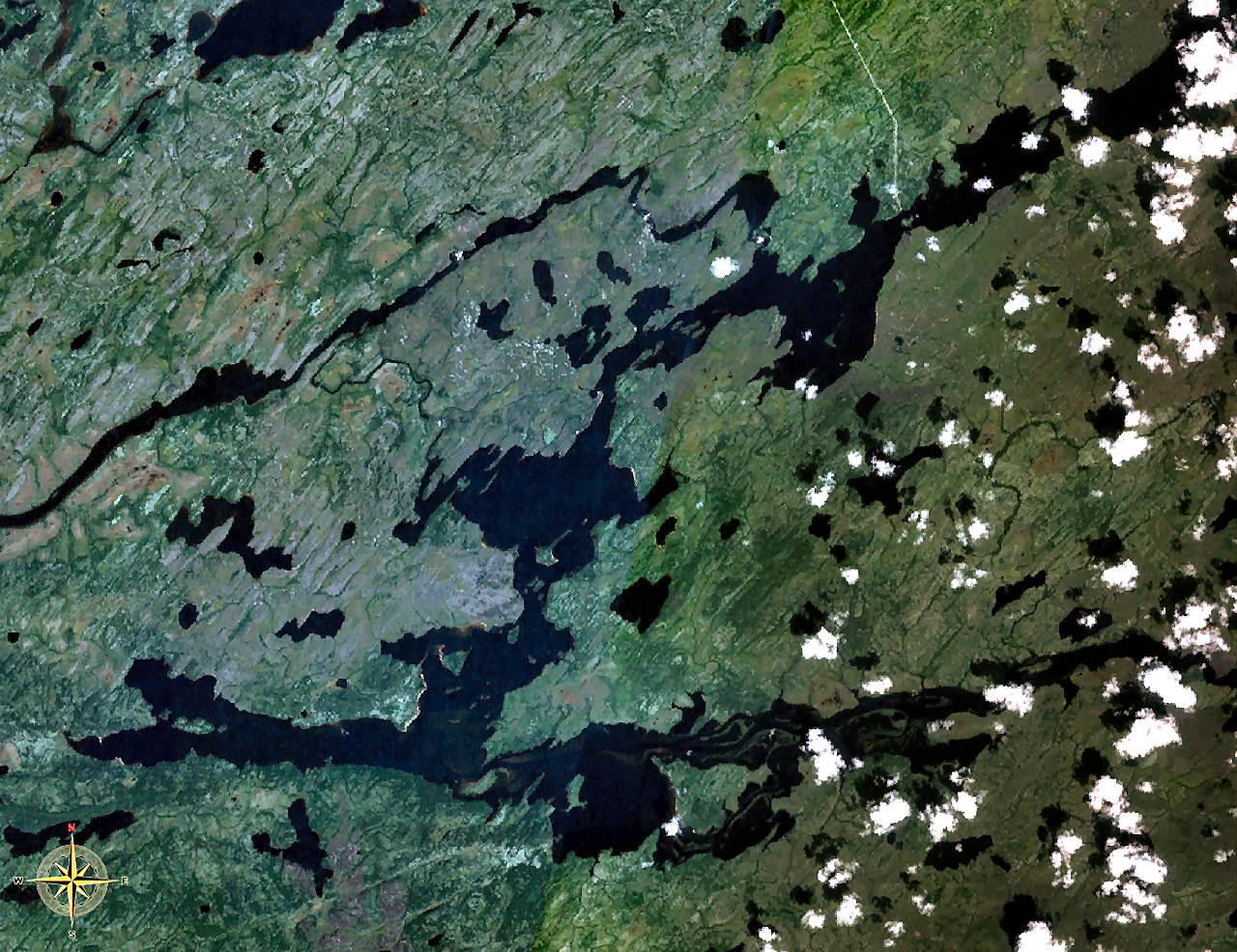 Lake Nemiscau, Quebec, Canada. Taken prior to diversion of Rupert River, which enters the lake at the bottom right and leaving the lake at the top middle, flowing to the left (west).